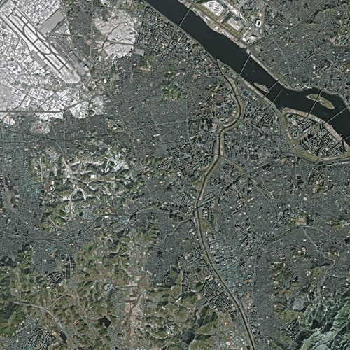 Seoul by SPOT Satellite